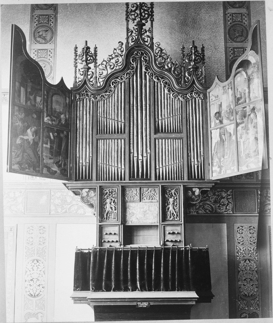 Organ with oak case and painted shutters from the Dutch Reformed Church in Scheemda. The pipes are divided into seven groups. On the inner right shutter are depicted The Nativity and The Adoration of the Shepherds. On the inner left shutter is depicted The Adoration of the Magi. The exterior of the shutters shows The Tree of Jesse. These paintings were formerly attributed as 'manner of Jan Swart van Groningen'.